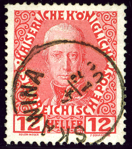 Autria KK 1908 Jubilee issue, 12 heller, Franz I emperor, cancelled at SKAWINA (Galicia, Poland)